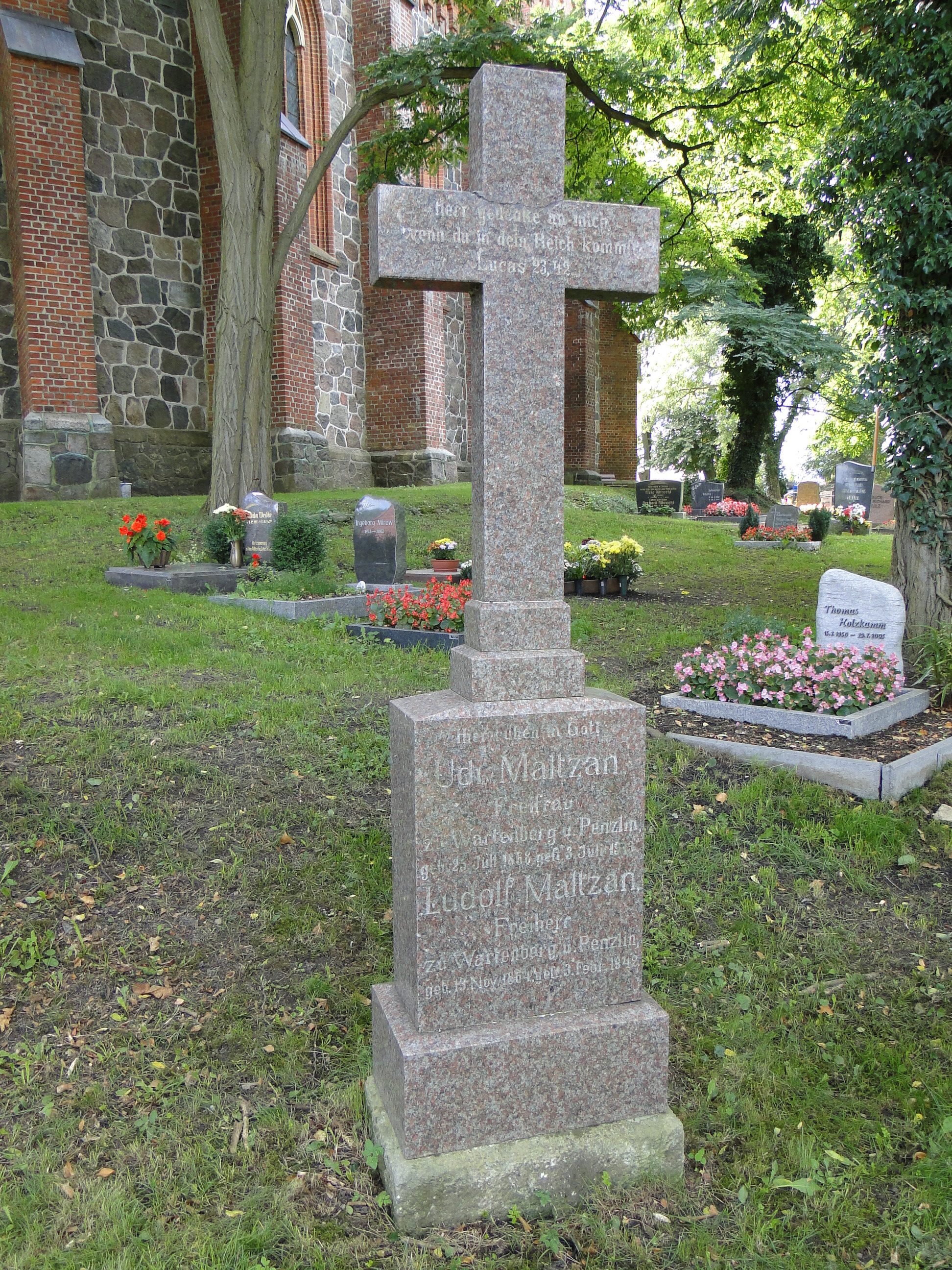 Church in Peckatel, district Mecklenburg-Strelitz, Mecklenburg-Vorpommern, Germany